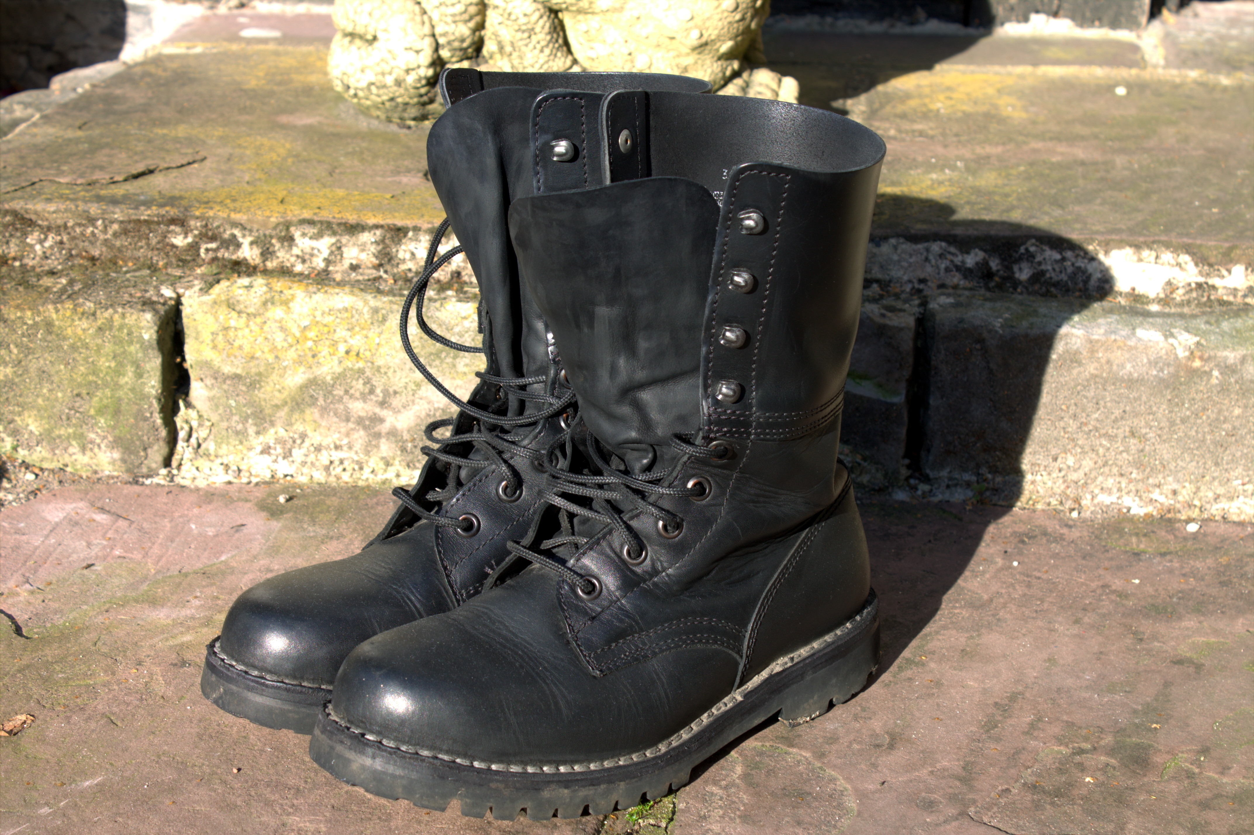 A pair of light combat boots of the Austrian Army (popularly "Einser-Bock", which means "#1 boots"), made by Steinkogler, Ebensee, Austria.